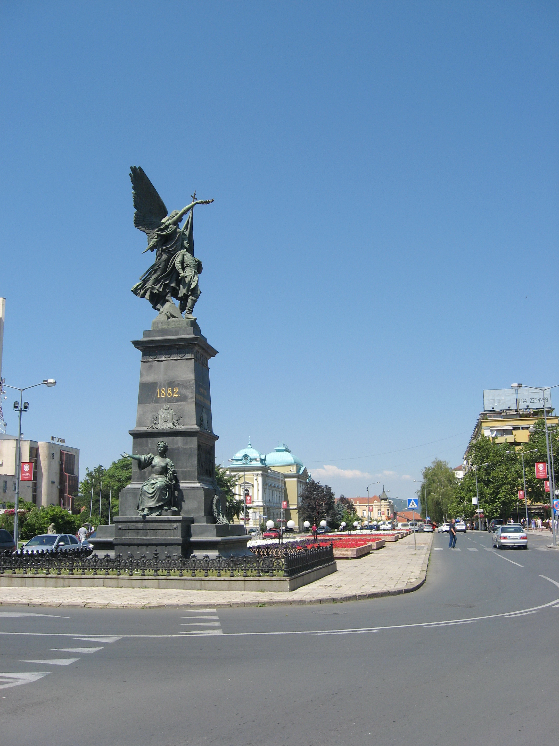 Kruševac - Monument